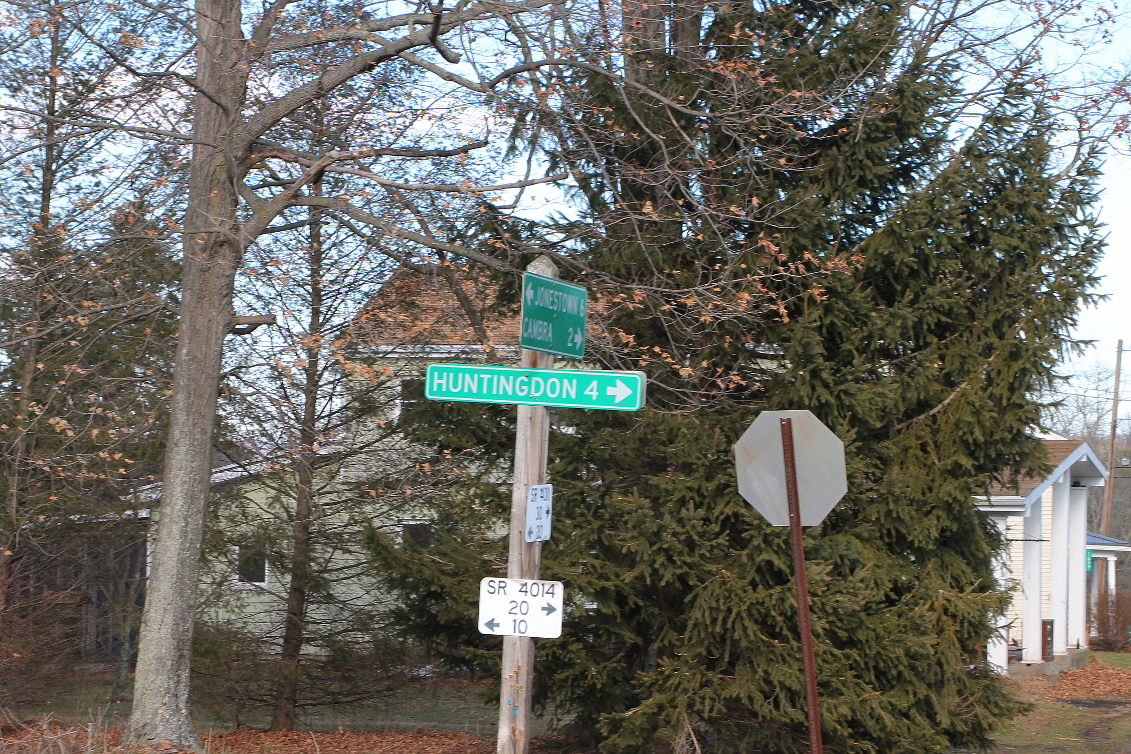 Road sign in New Columbus, Pennsylvania